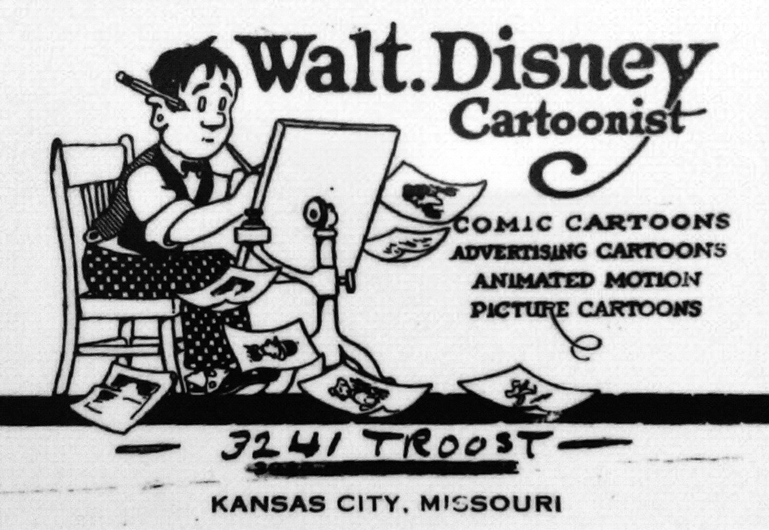 Return address of a business envelope featuring a self portrait, used by Walt Disney in approximately 1921, on display at the Walt Disney Family Museum in San Francisco.